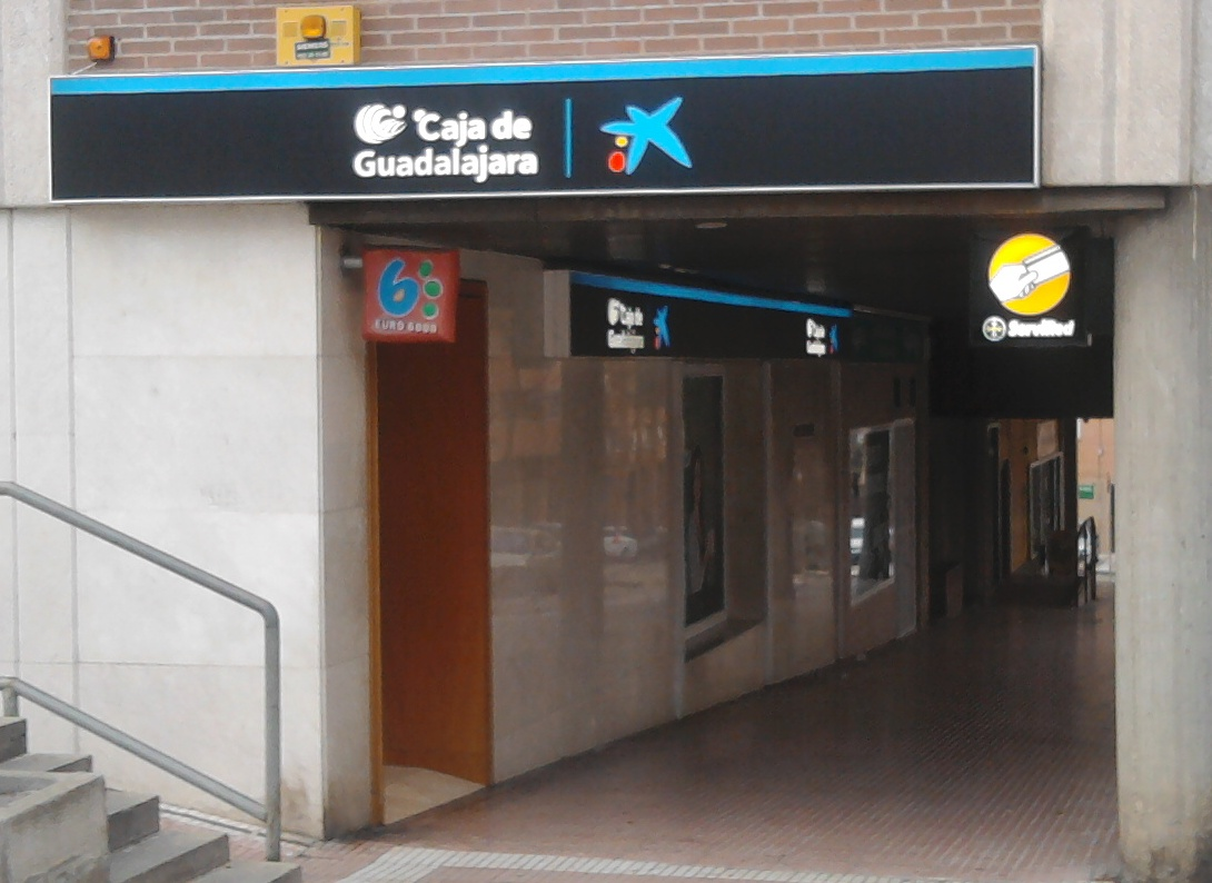 Office of Caja de Guadalajara, in Julián Besteir Street, Guadalajara, Spain.